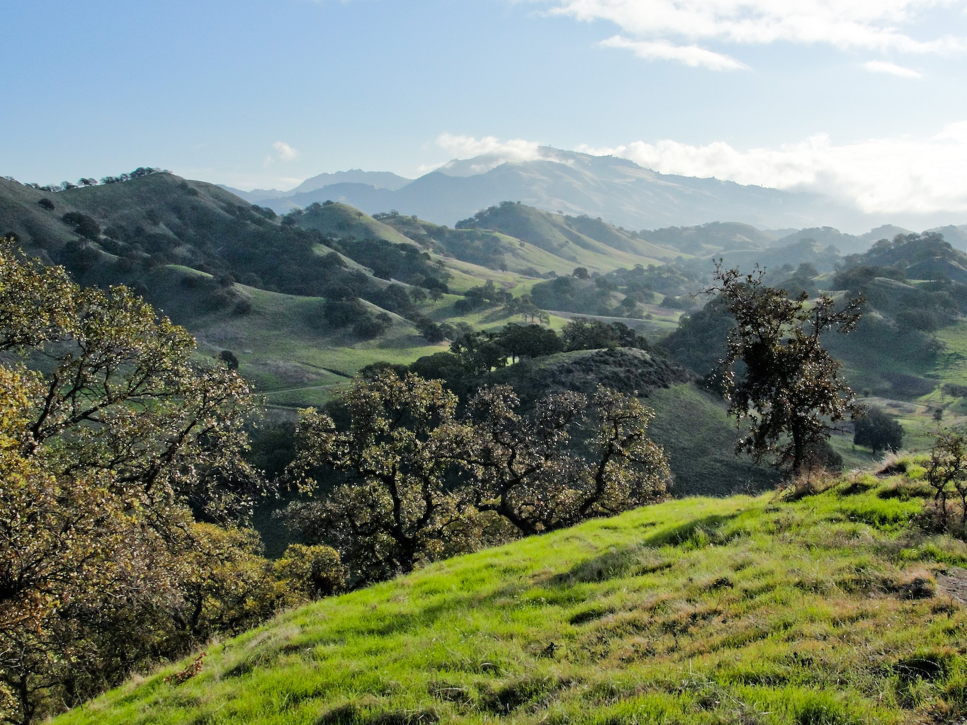 Mount Diablo — from Quarry Hill in Shell Ridge Open Space, Contra Costa County, California